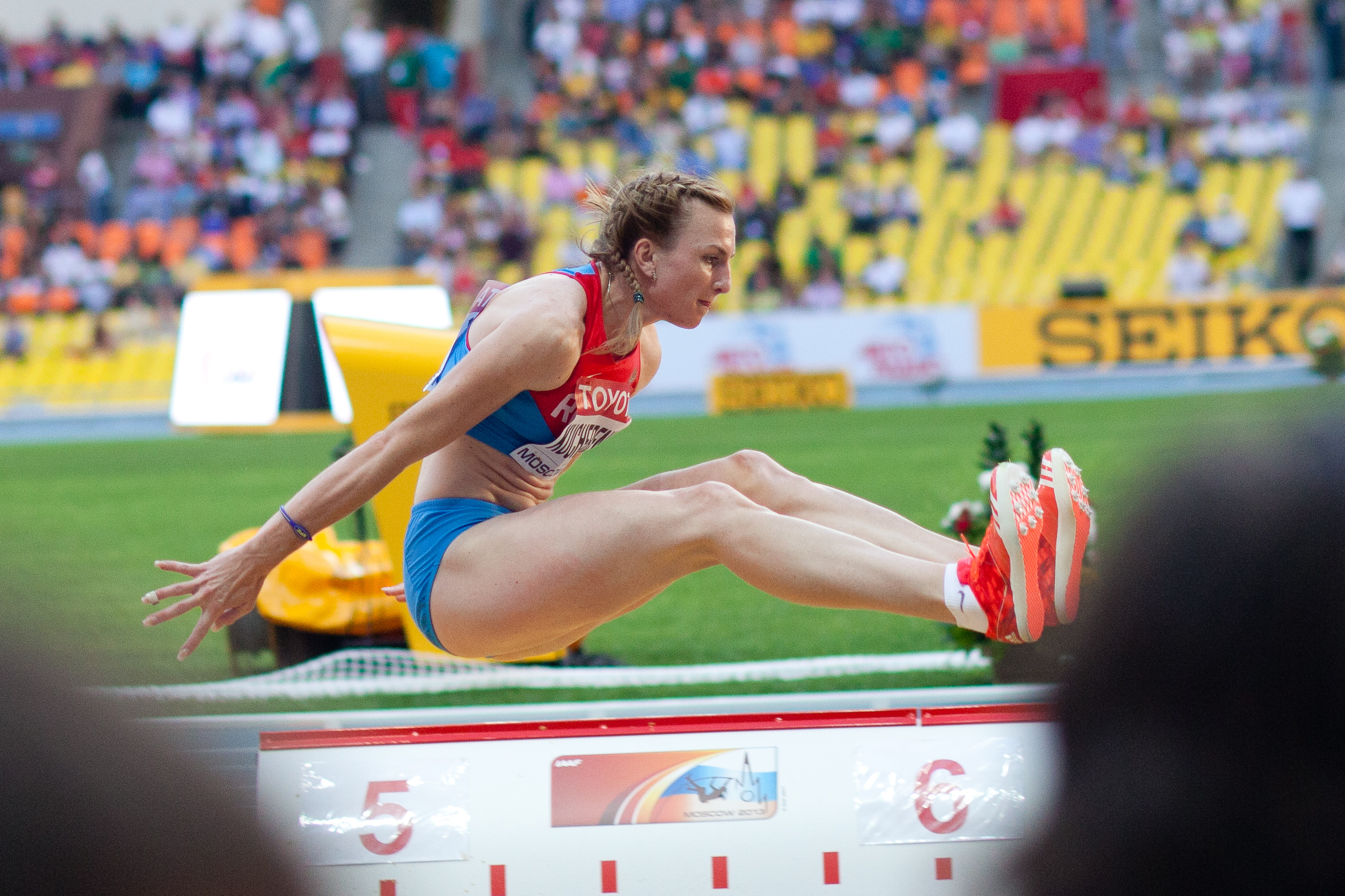 Olga Kucherenko during 2013 World Championships in Athletics in Moscow.